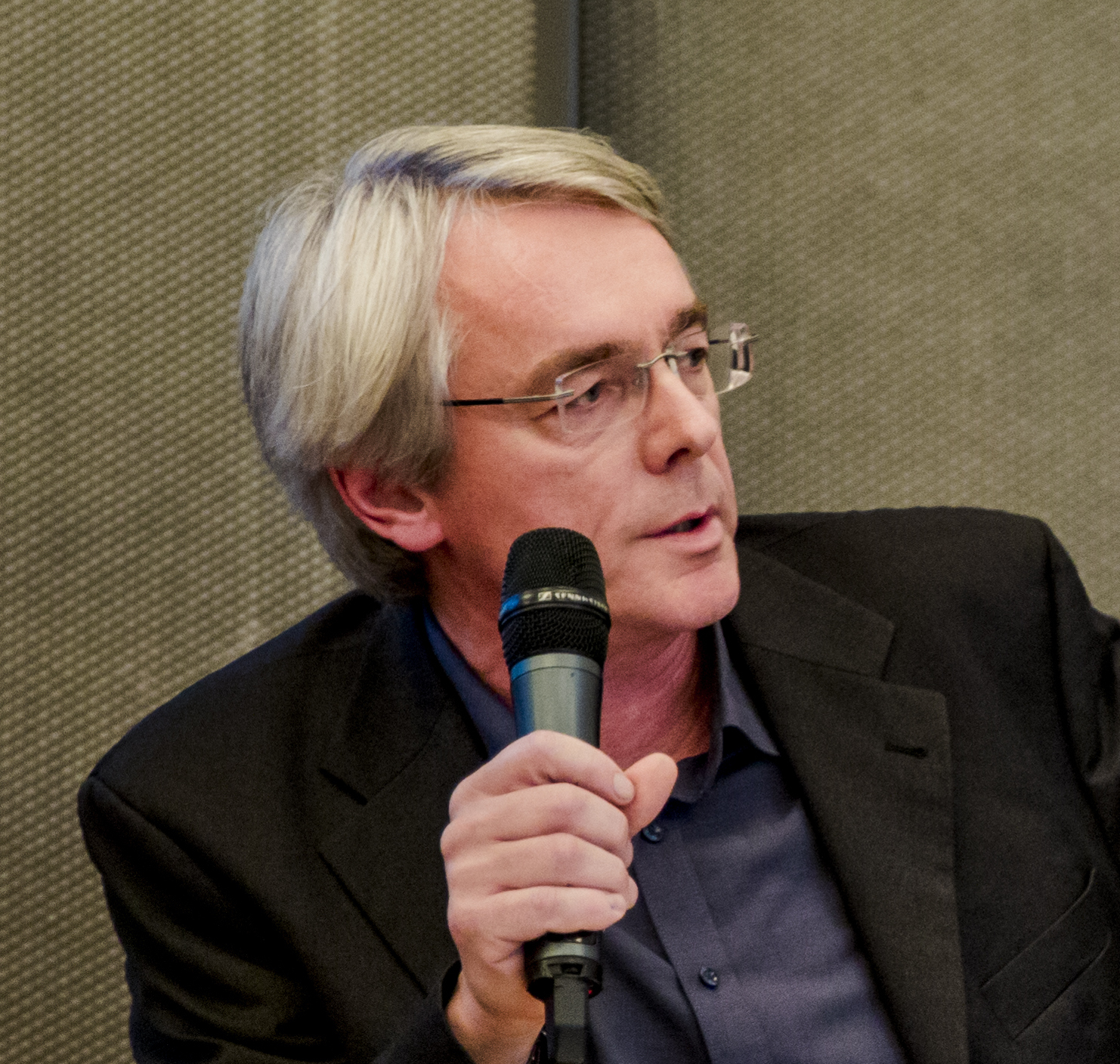 Wolfram Stender auf der Veranstaltung "Was ist Antisemitismus", Hannover